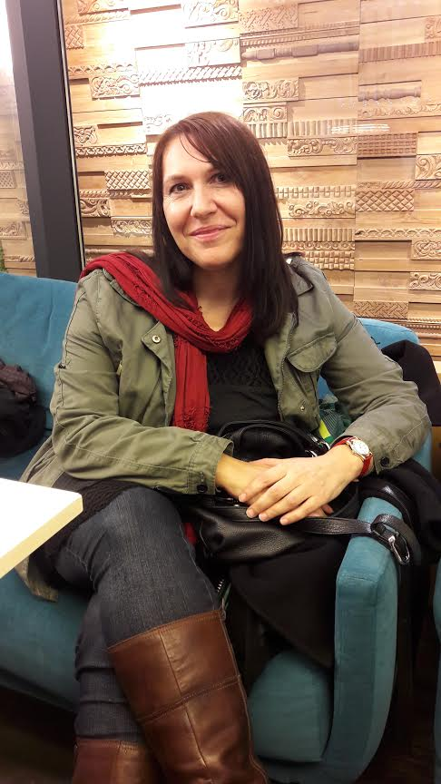 Zorica Tijanić